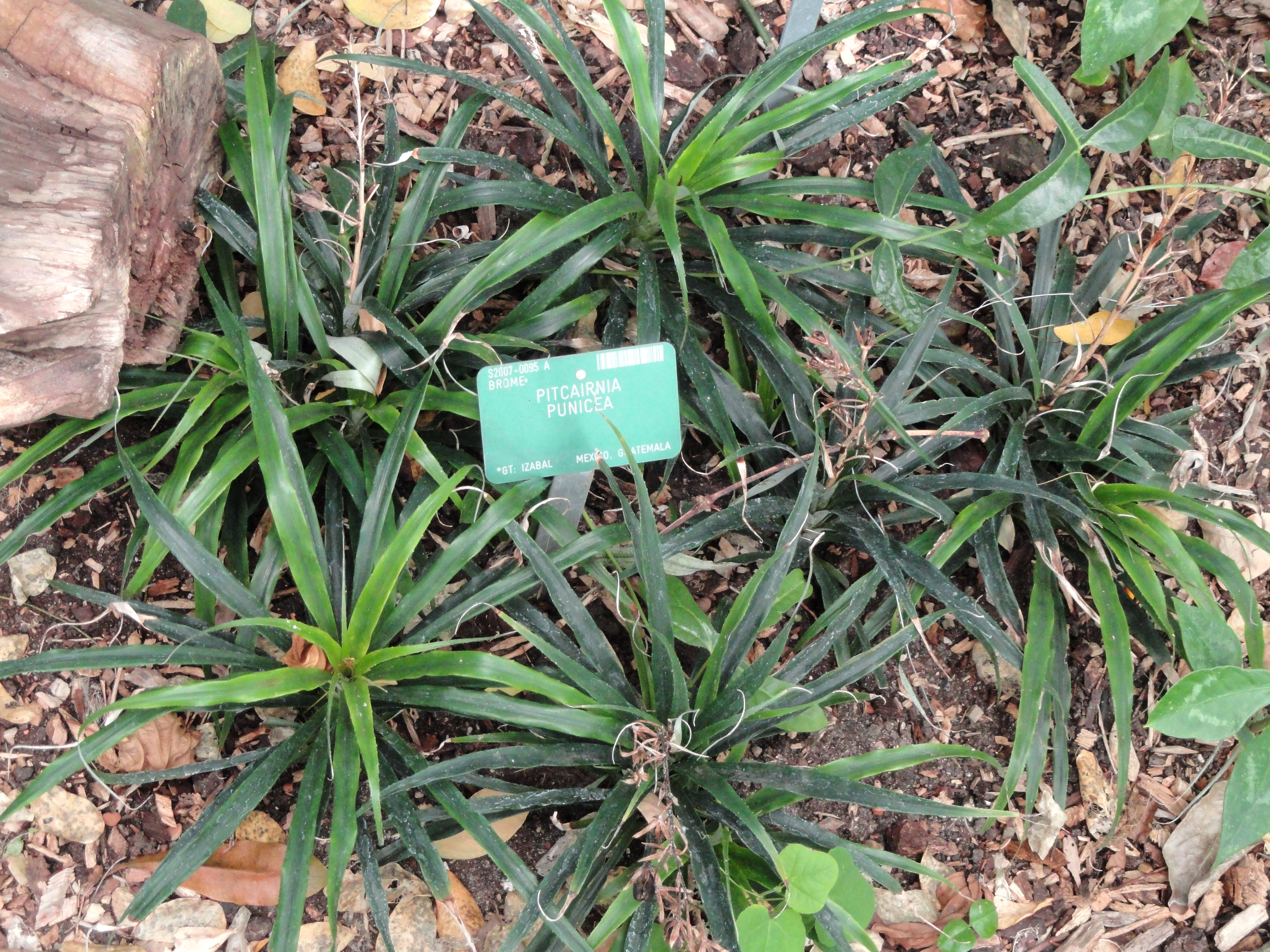 Botanical specimen in the University of Copenhagen Botanical Garden, Copenhagen, Denmark.